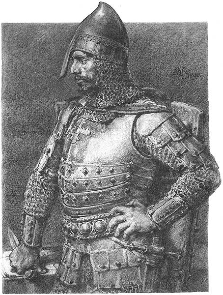 Konrad I of Masovia